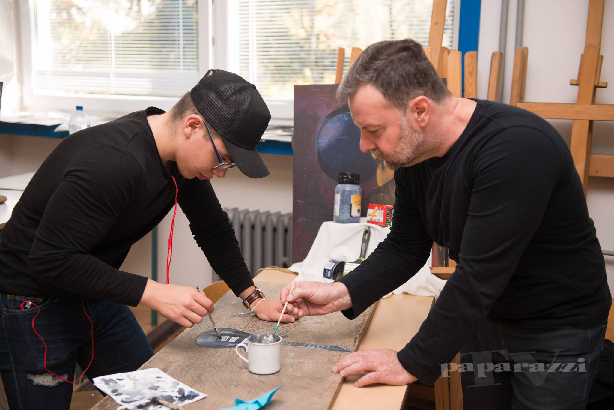 ssos polytechnicka dsa trnava